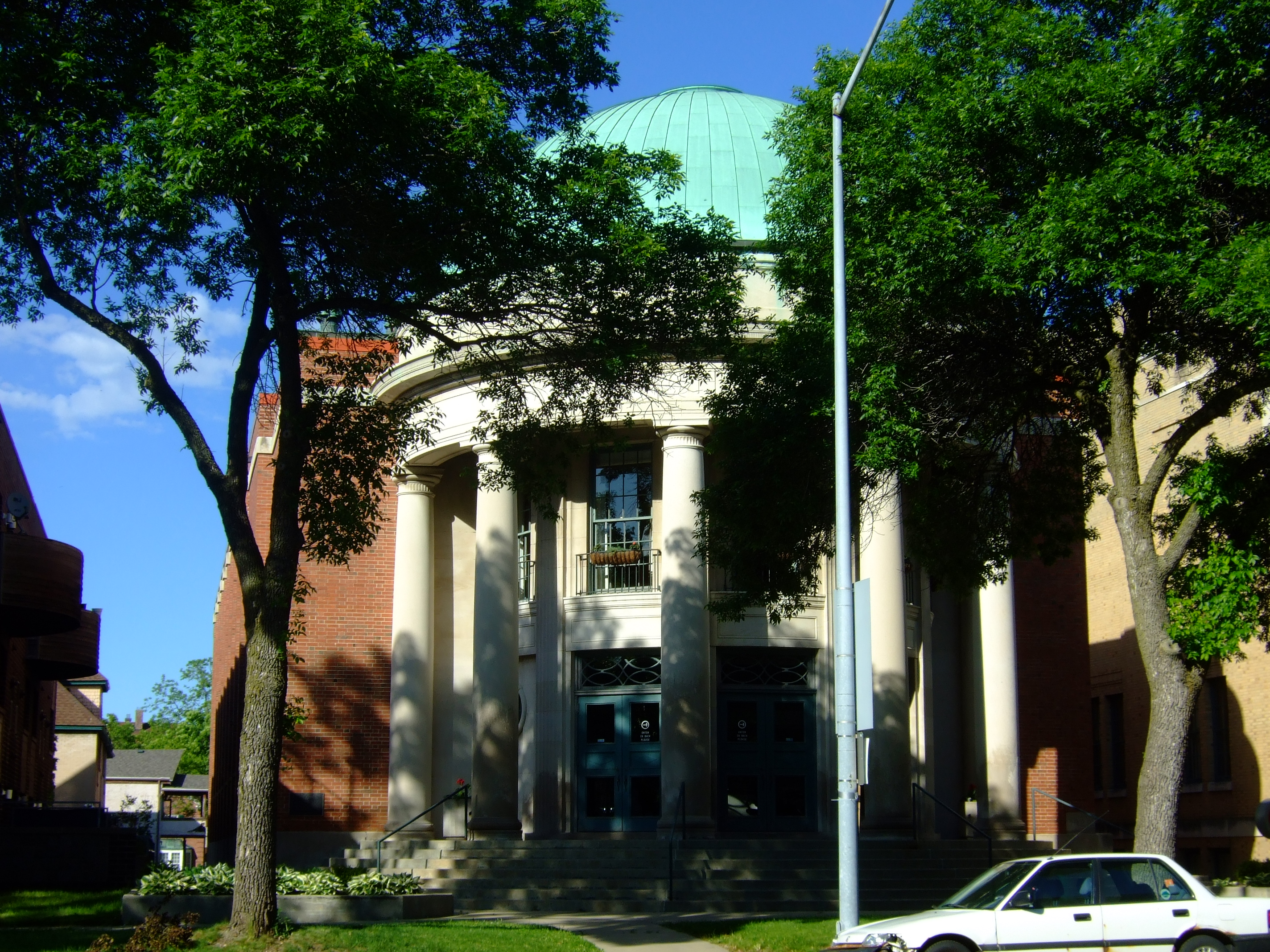 First Church of Christ, Scientist, in Madison, Wisconsin. Added to the National Register of Historic Places in 1982.